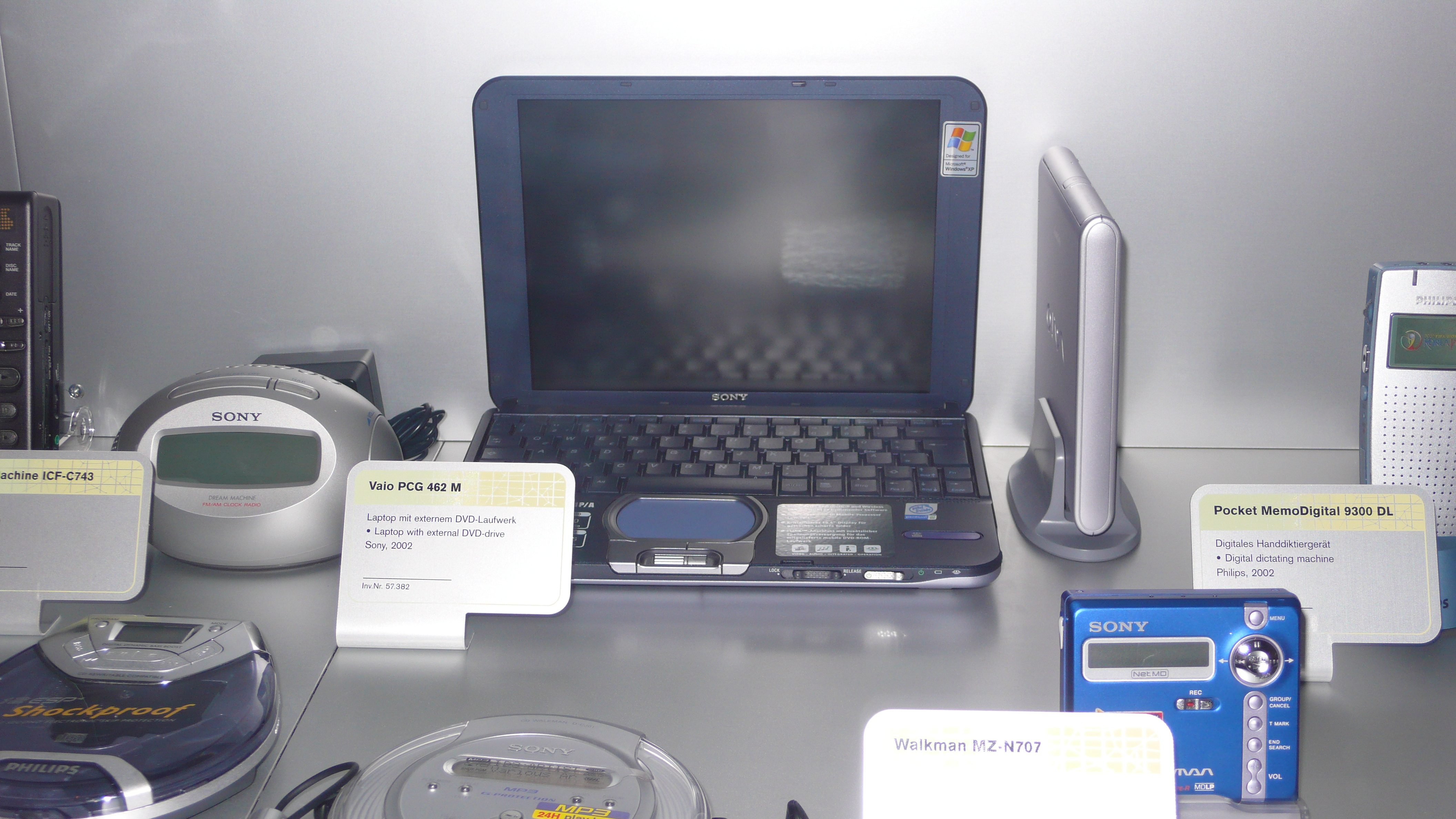 Sony-2002 VAIO PCG 462 M